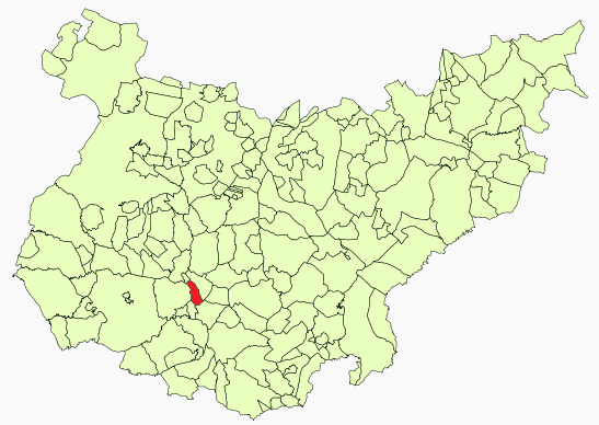 Alconera